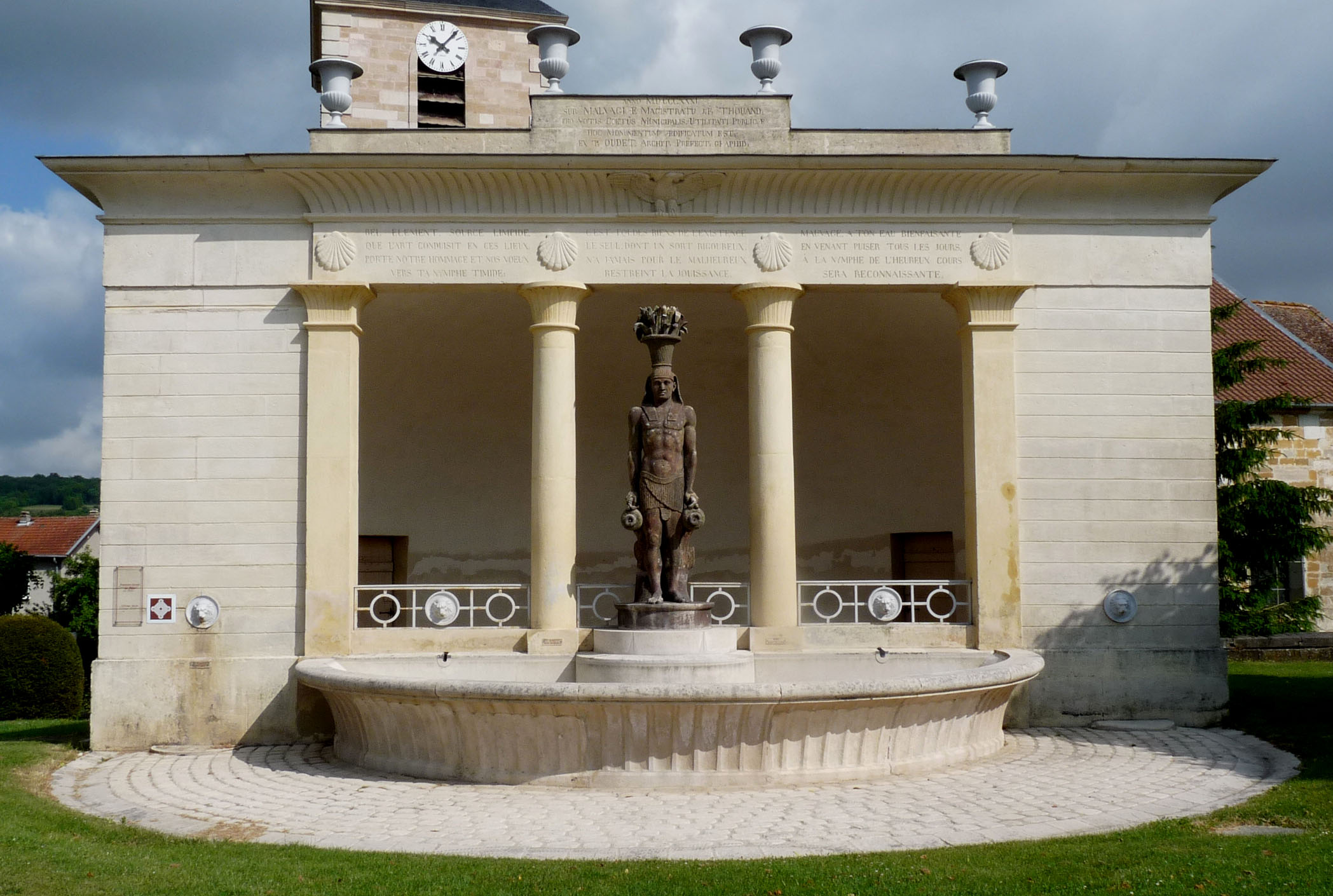 Wash house in Mauvages (Meuse)